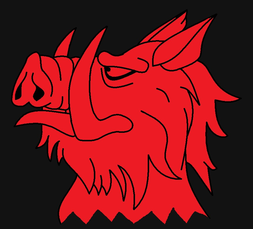 Black Knight blason from movie Holy Grail